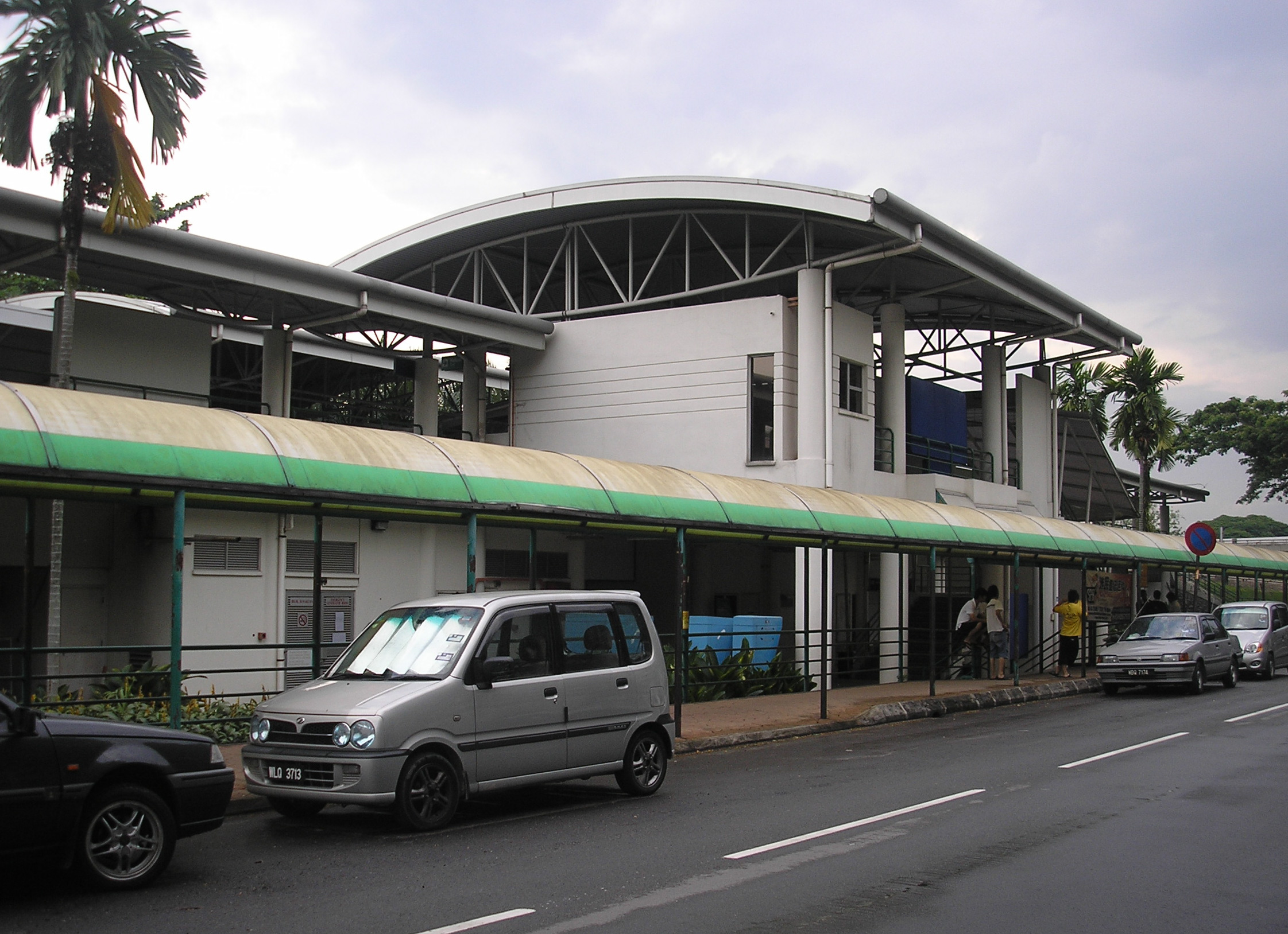 The exterior of the Miharja LRT station (Ampang Line), Kuala Lumpur, Malaysia.